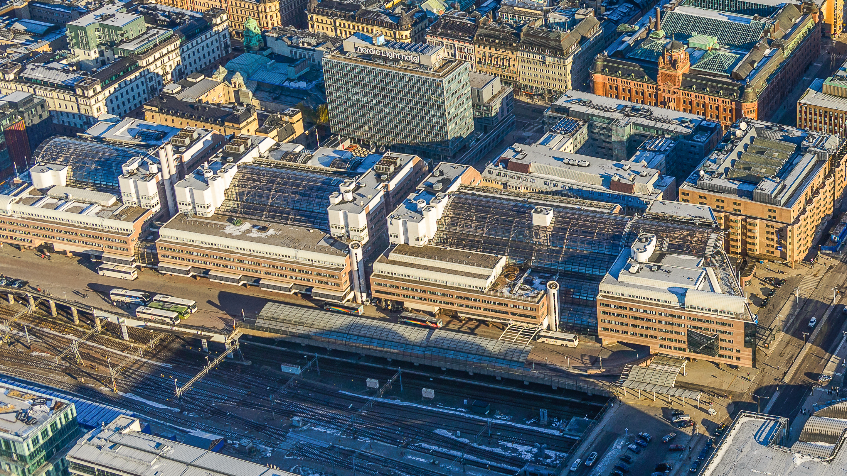 World Trade Center Stockholm